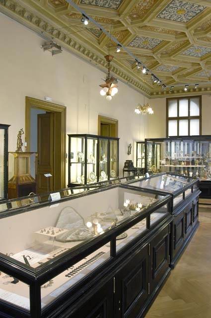 The Treasury: Metals and Other Materials (location: Museum of Decorative Arts in Prague?)